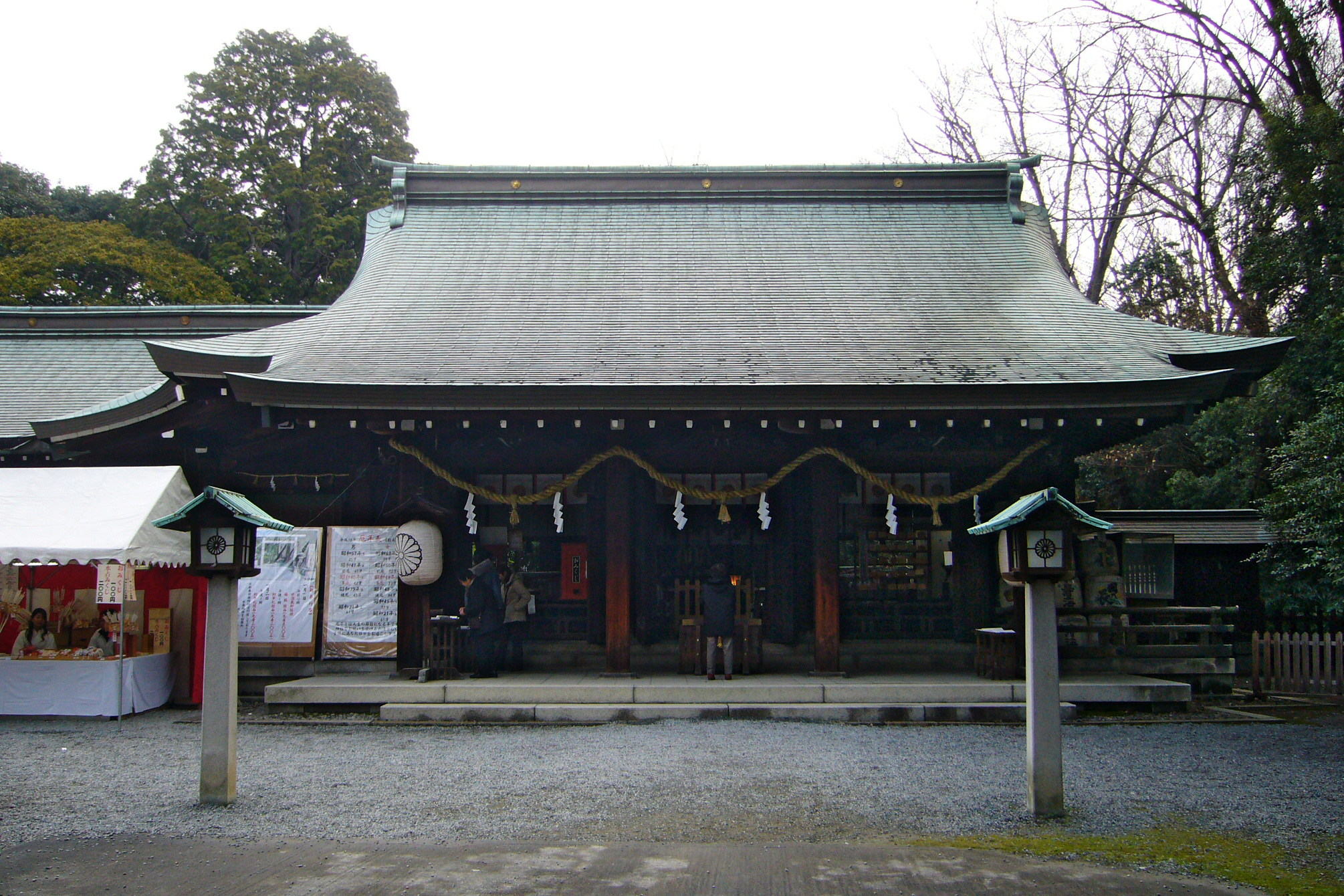 Minase-jingu in Shimamoto, Osaka prefecture, Japan